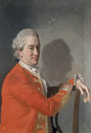 James Hamilton, 2nd Earl of Clanbrassill